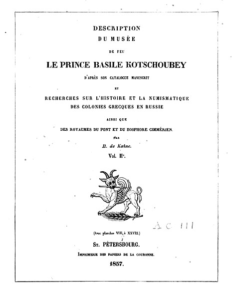 Book from Bernhard Von Koehne, "Description du musée de feu le prince Basile Kotschoubey"